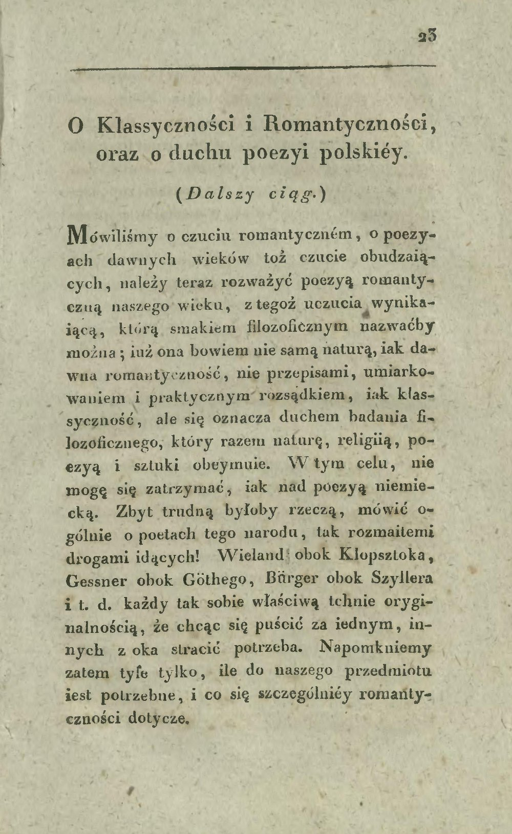 First page of second part of O klasyczności i romantyczności (About classicism and romanticism) by Kazimierz Brodziński, published in "Pamiętnik Warszawski", 1818.